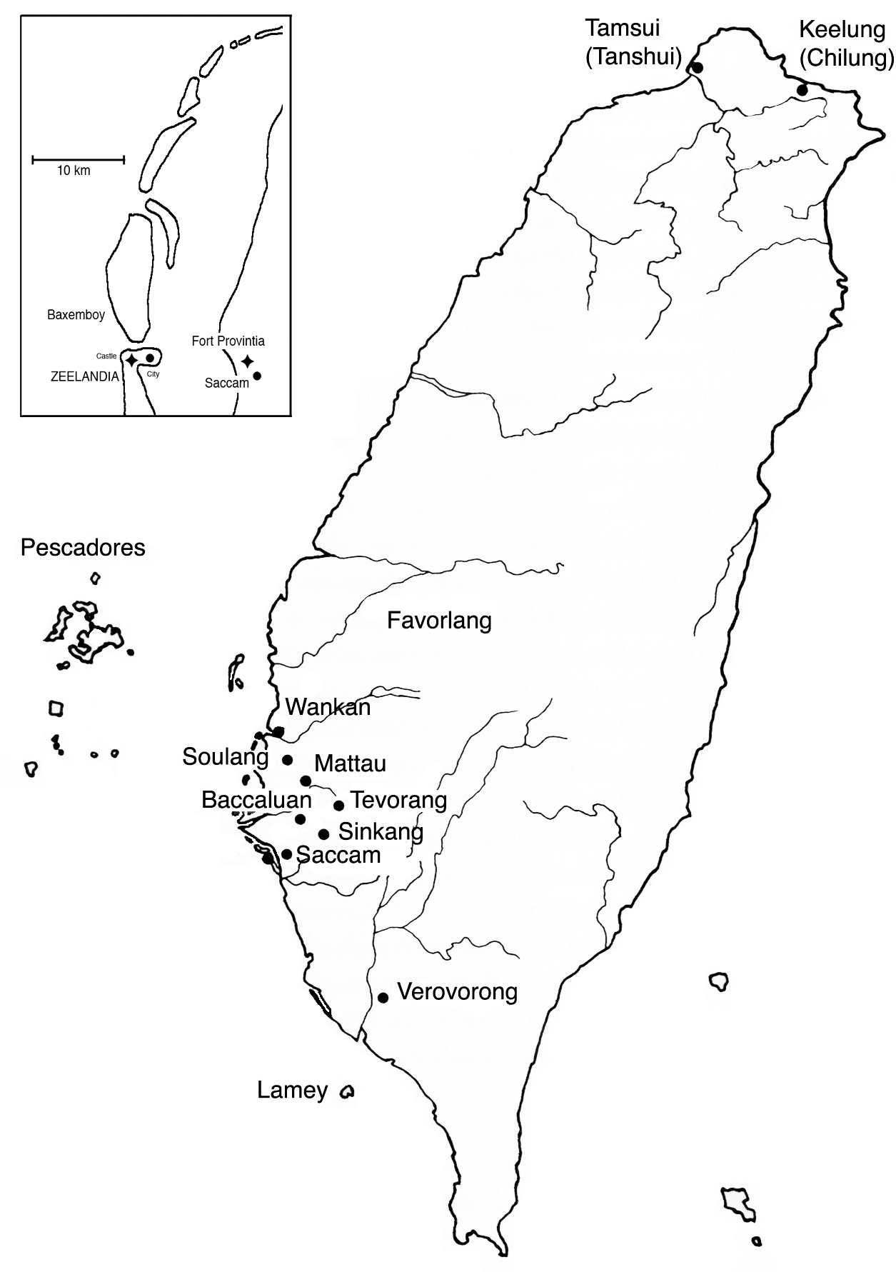 Map of the Ilha Formosa (Taiwan) under the Dutch East India Company (VOC)